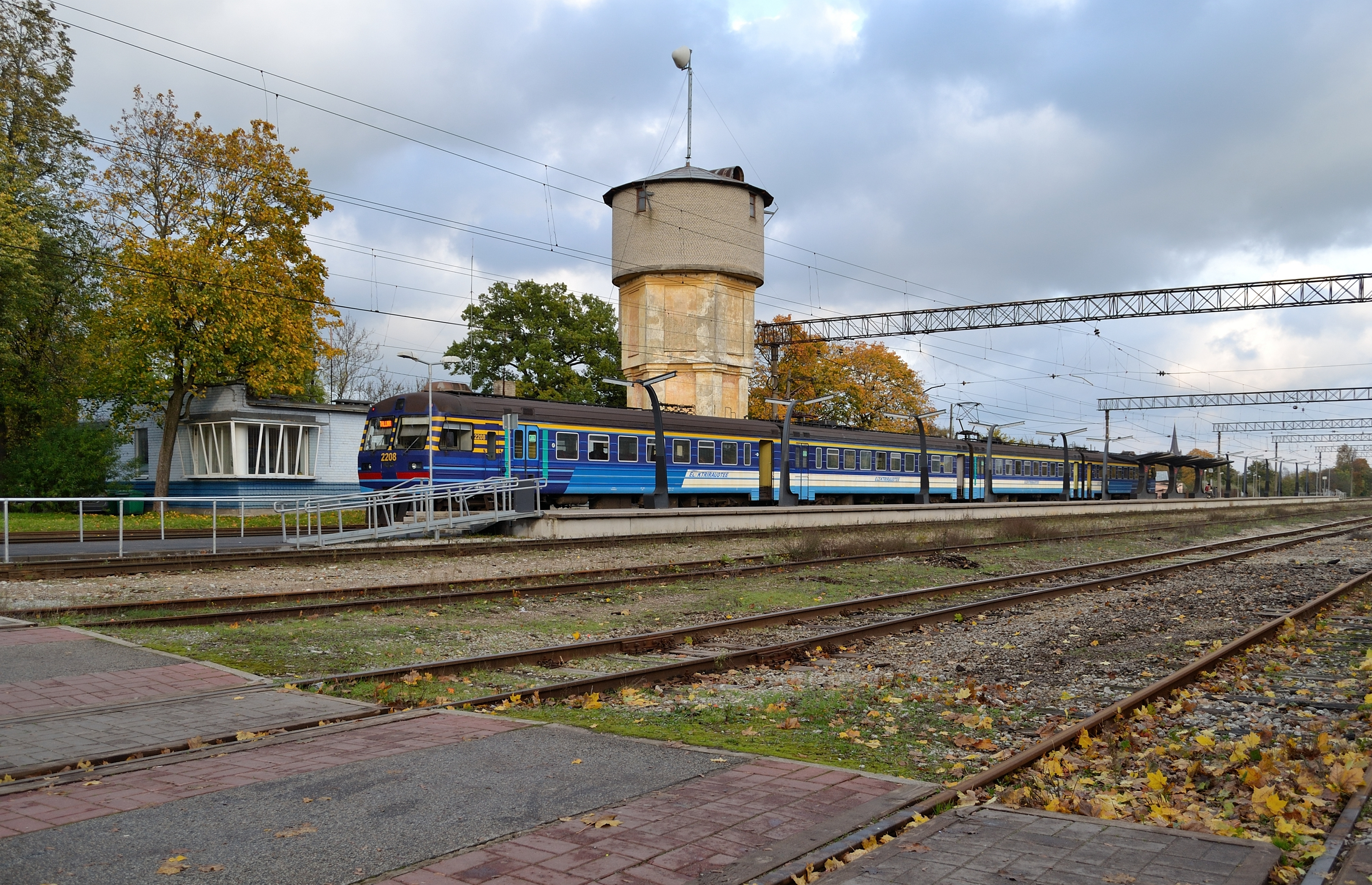 Keila station